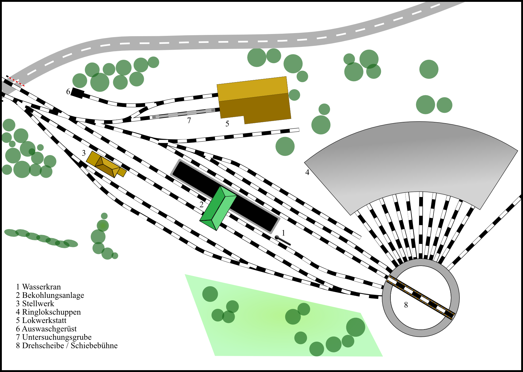 Diagram of a German locomotive depot (Bahnbetriebswerk).